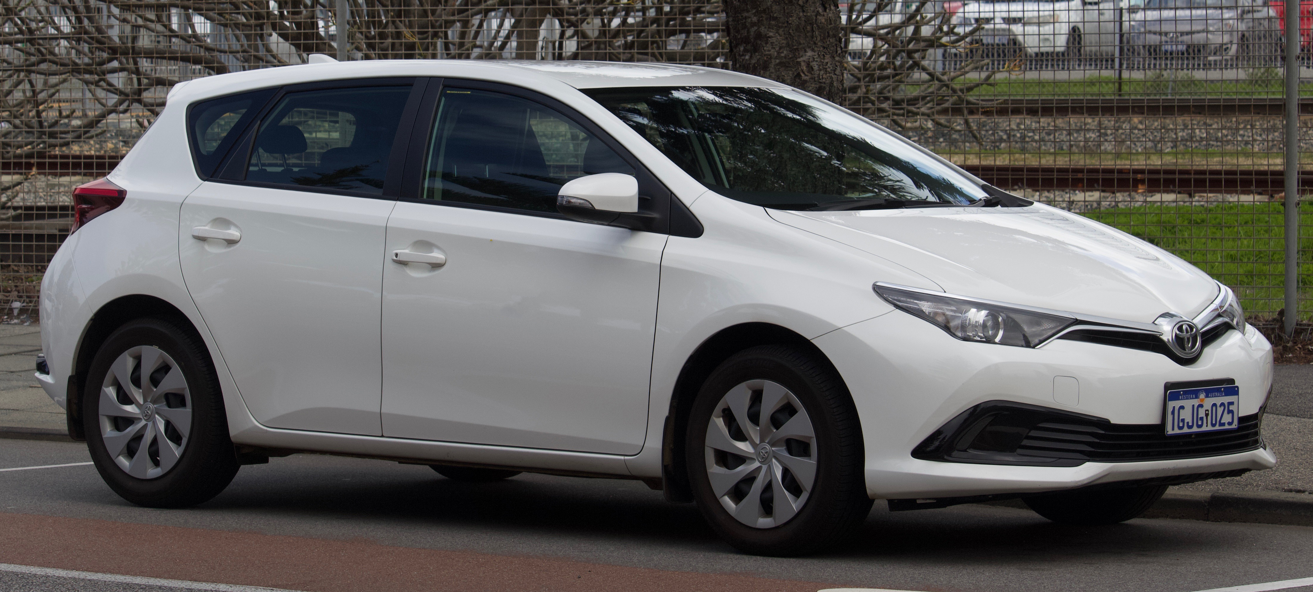 2017 Toyota Corolla (ZRE182R) Ascent hatchback. Photographed in Fremantle, Western Australia, Australia.